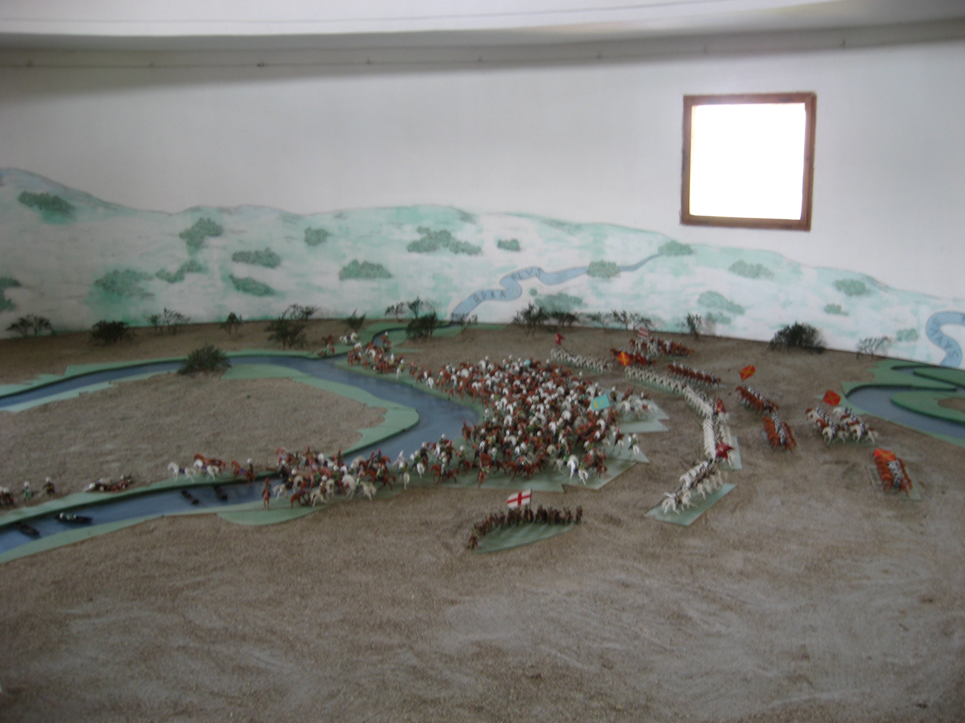 Battle of Sisak. Exposition in Sisak fortress (Croatia)